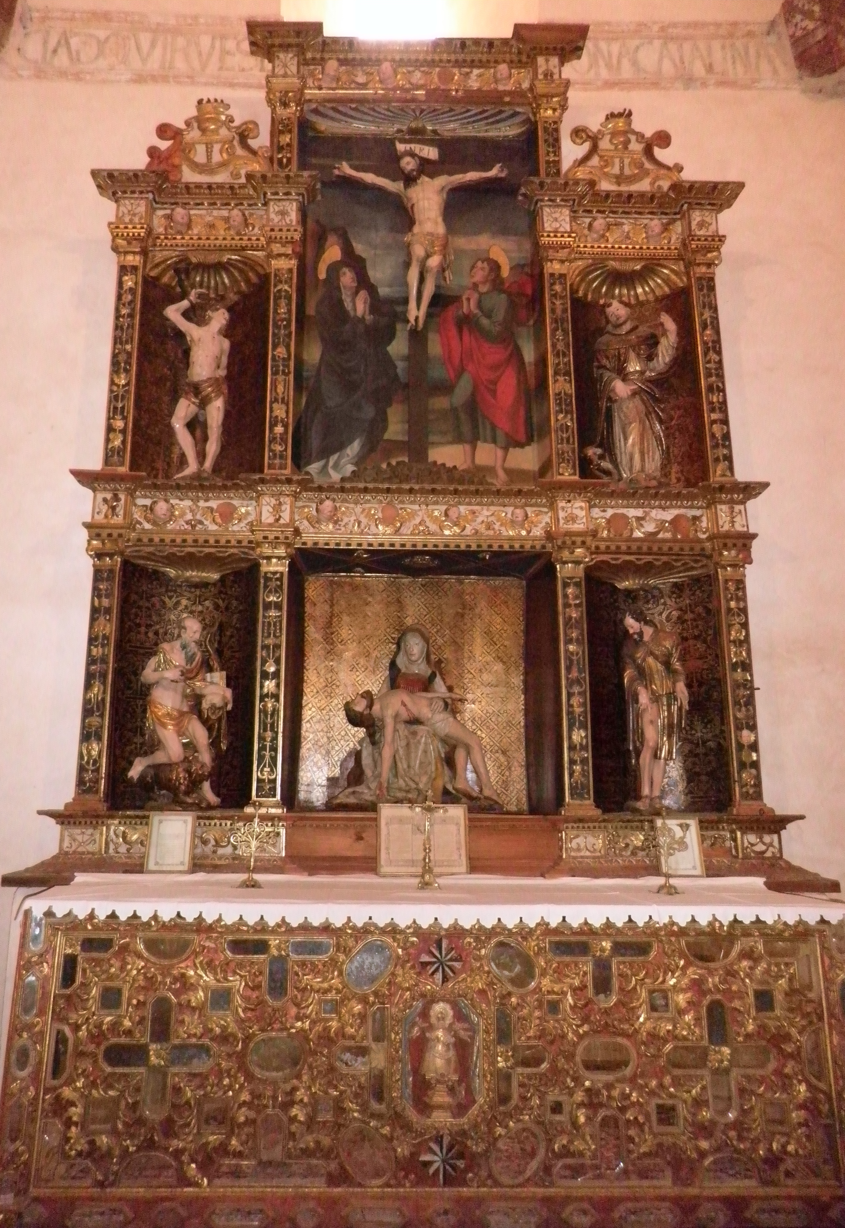 Altarpiece of a side chapel of church of Santa María la Real de Nieva, Segovia province, Spain.